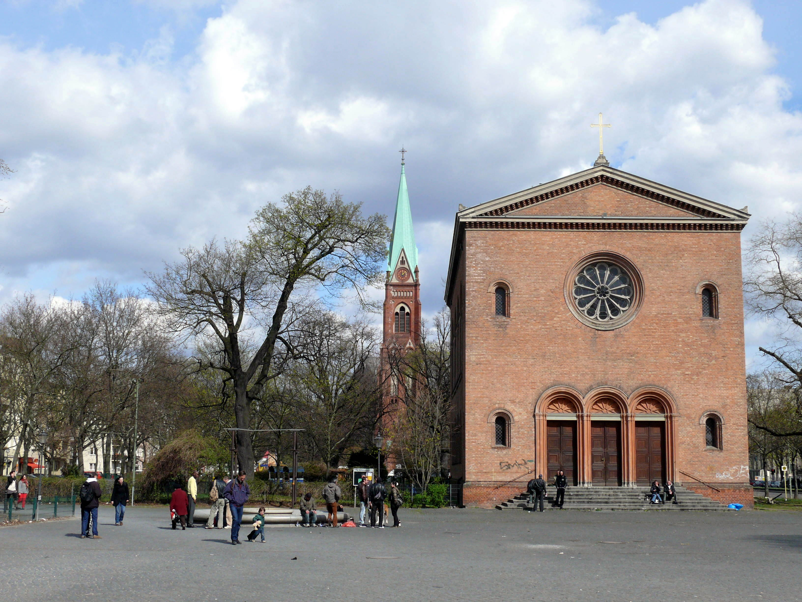 Berlin Wedding Nazarethkirche